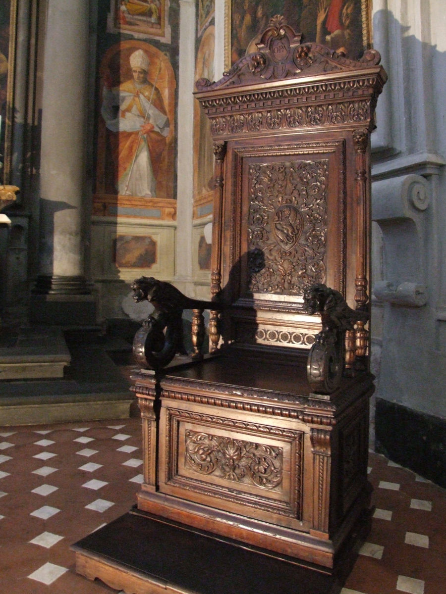 High backed throne chair with box seat, Volterra cathedral, Italy